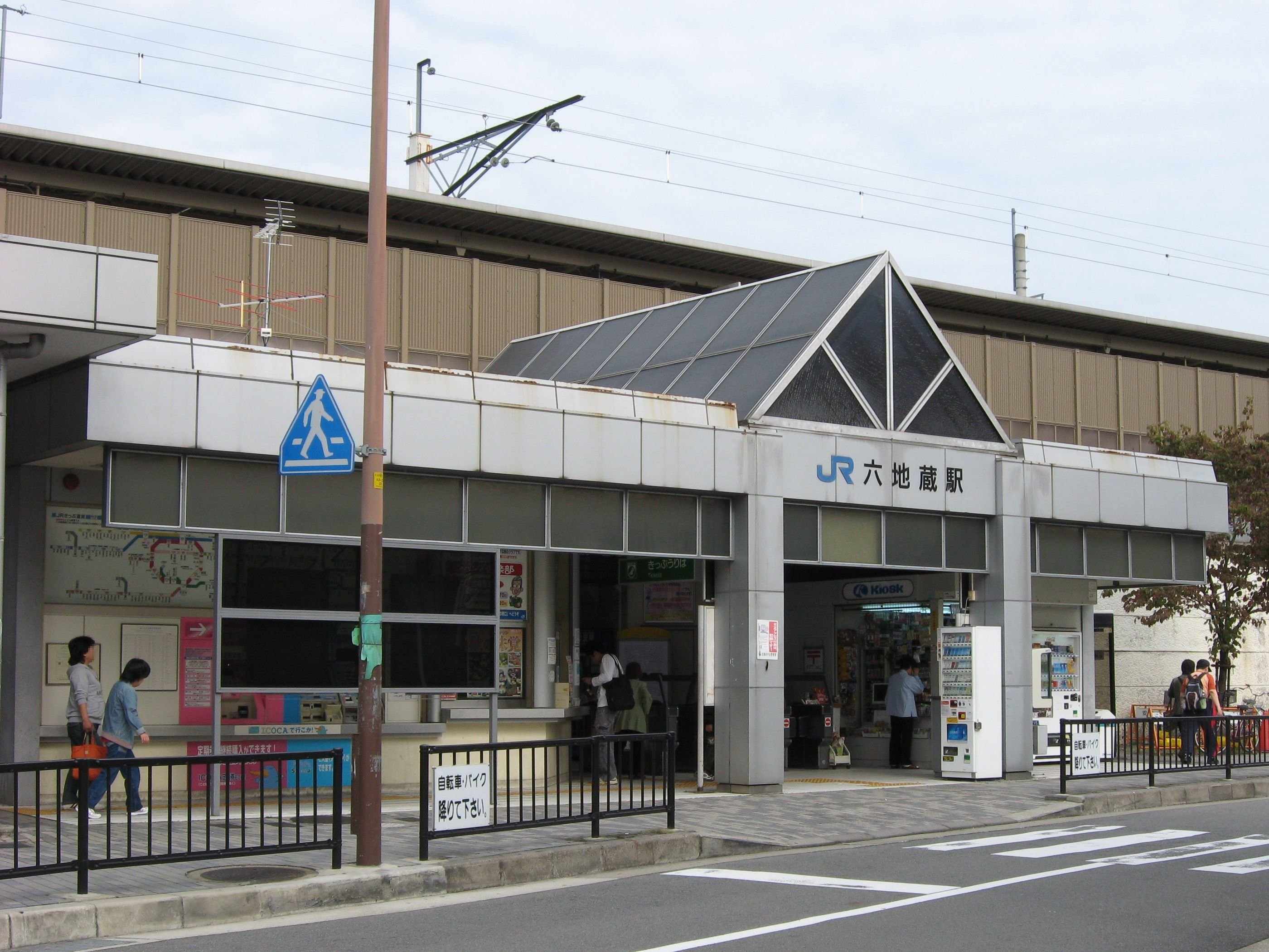 JR West Rokujizō Station